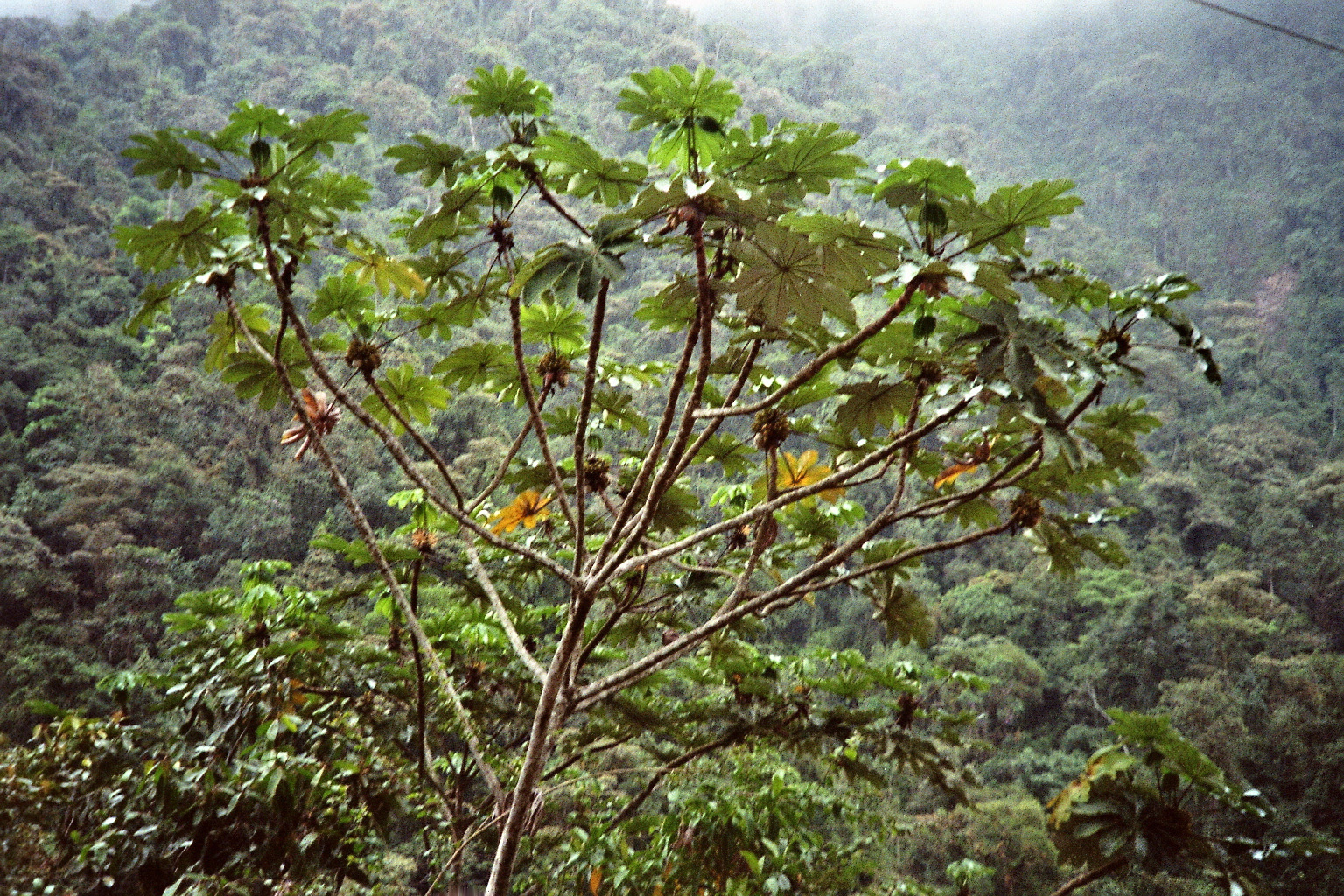 Cecropia tree branch, cloud forest near Mindo, Ecuador